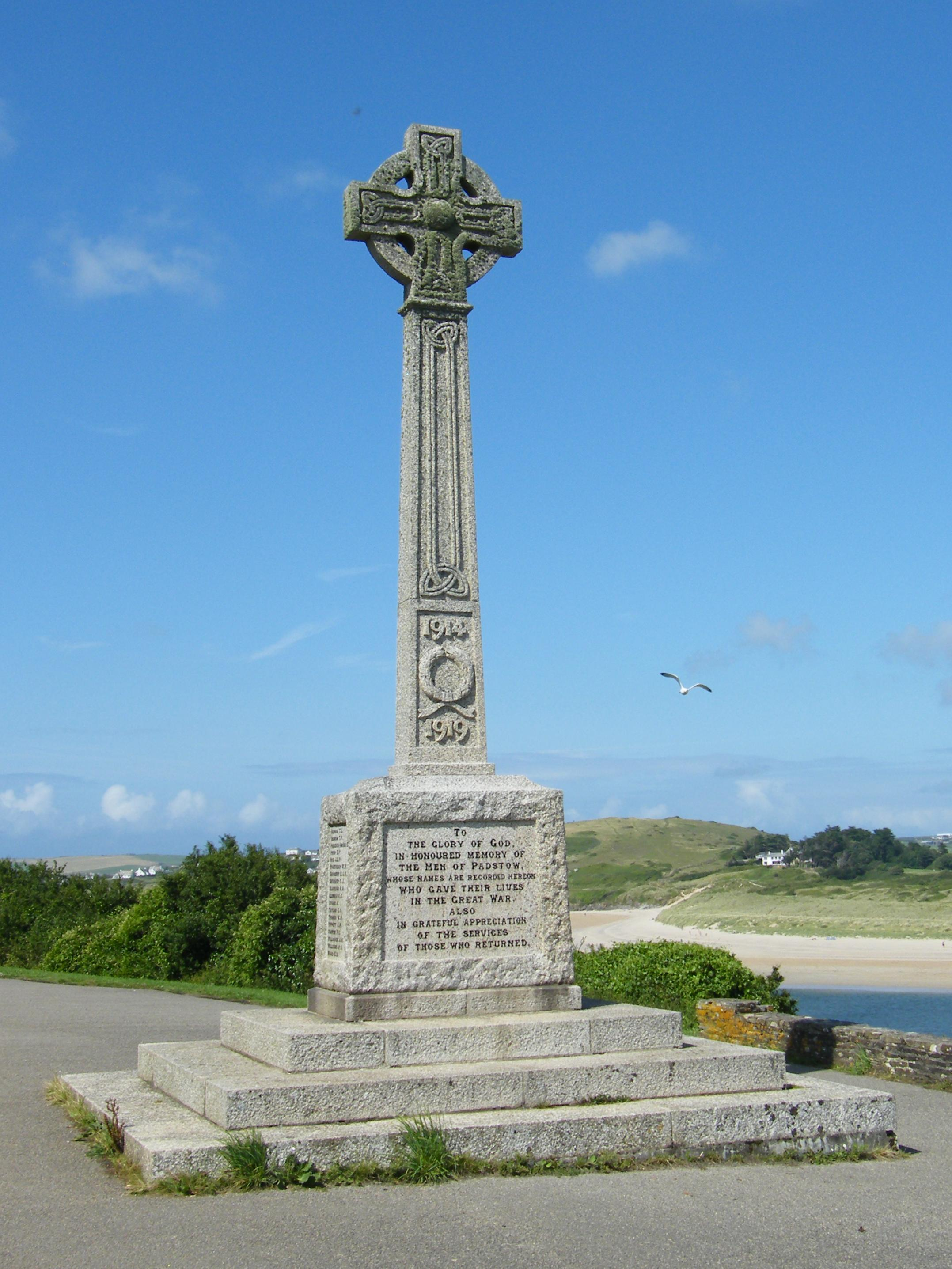 Padstow war memorial, in the form of a Celtic cross